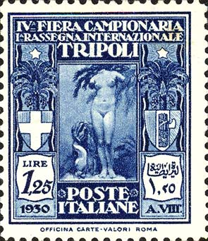 Express stamp 1930:Venus of Cyrene.